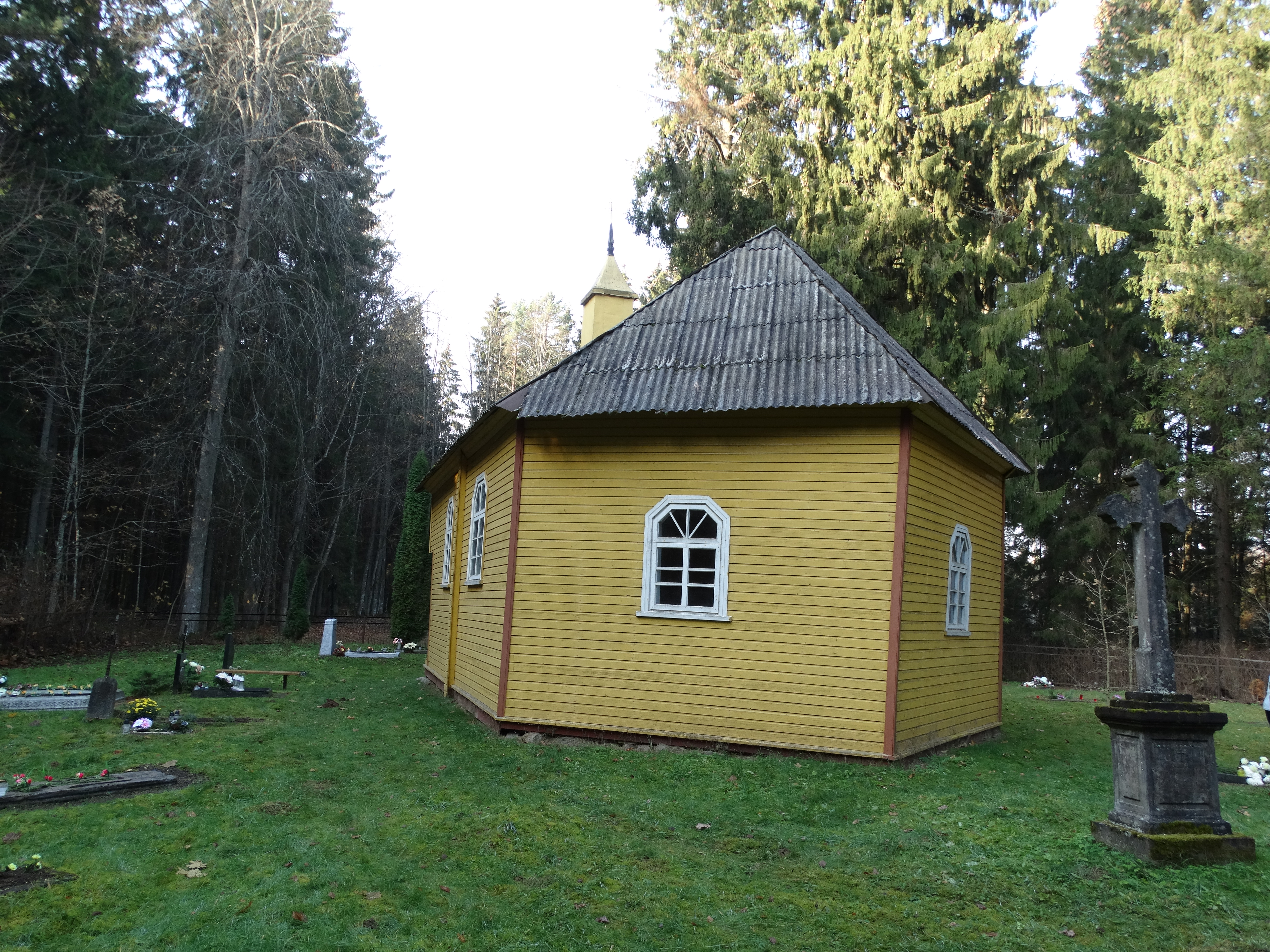 Chapel in Porijai, Pasvalys district, Lithuania